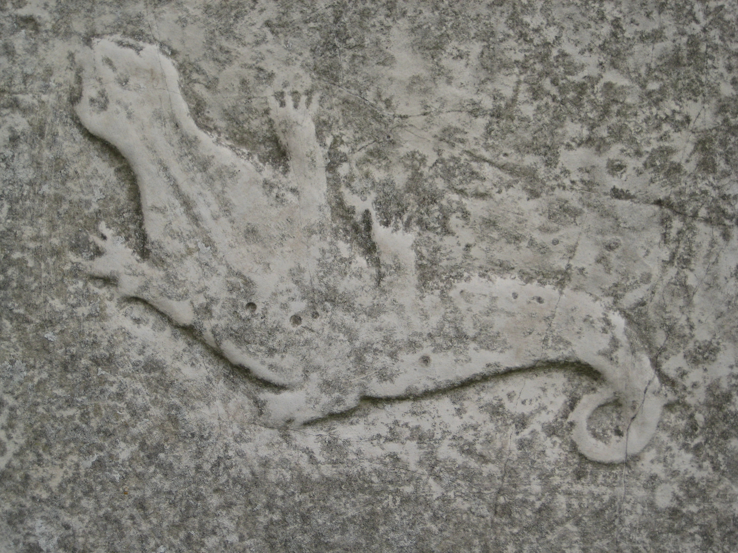 Aughton, East Riding of Yorkshire, England.Shows a sunk relief carving on the tower wall of a newt, also known as an Ask - barbara ainscough 2008